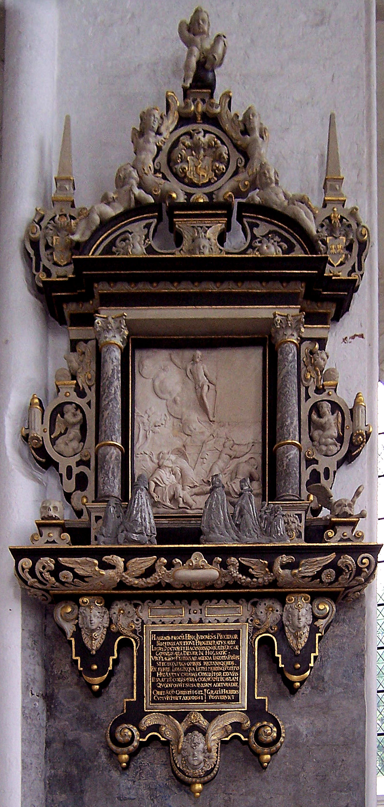 Epitaph of Dr. Ludwig Pincier (1561-1612), councillor and cathedral dean, Lübeck cathedral